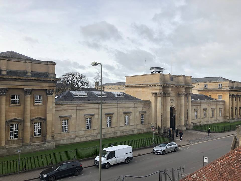 Oxford University Press from Park, Somerville College